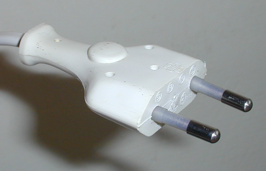 Example of a Europlug